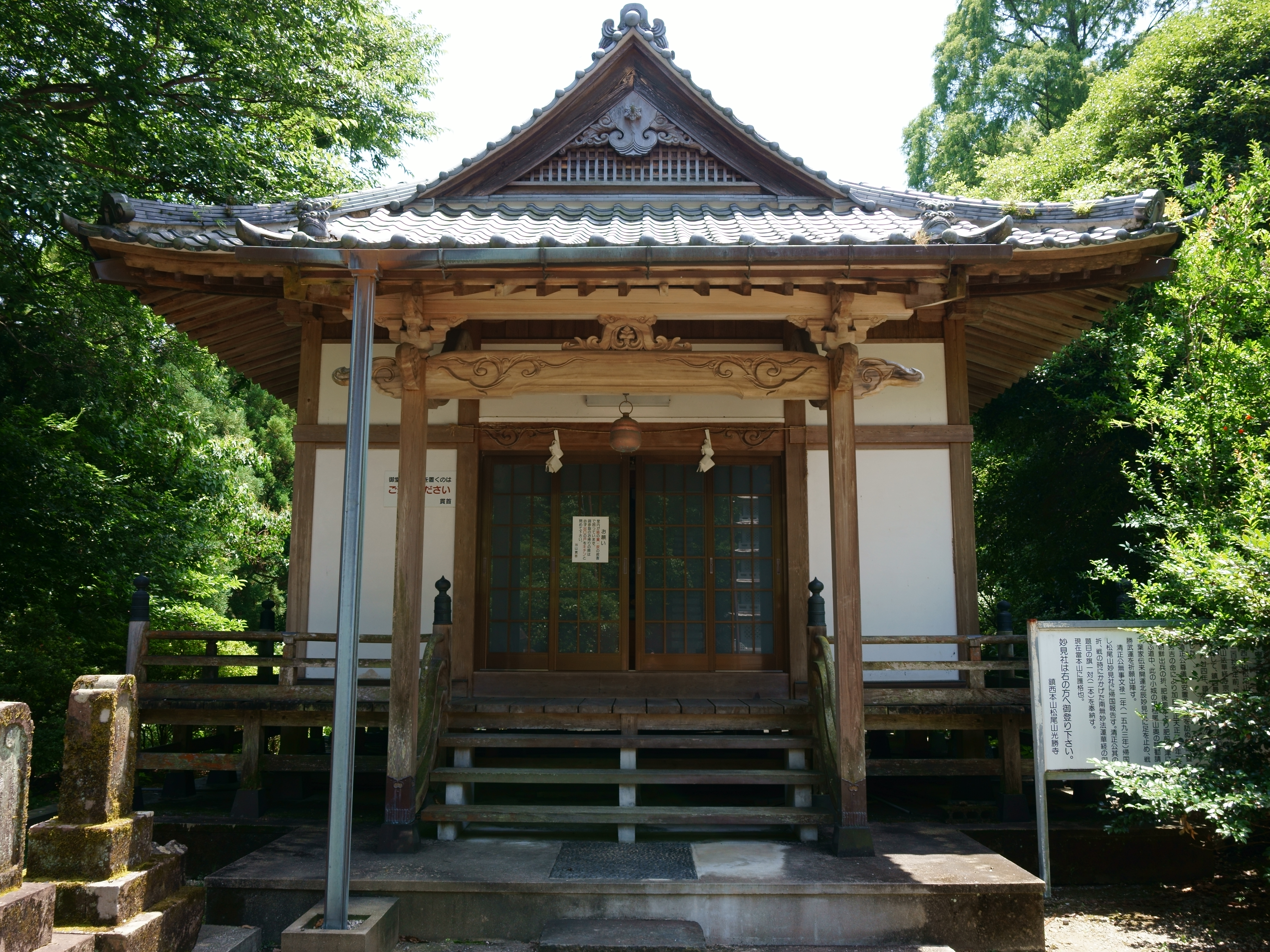 Kishimojin(Hariti) hall of Matsuozan Kōshō-ji Temple.